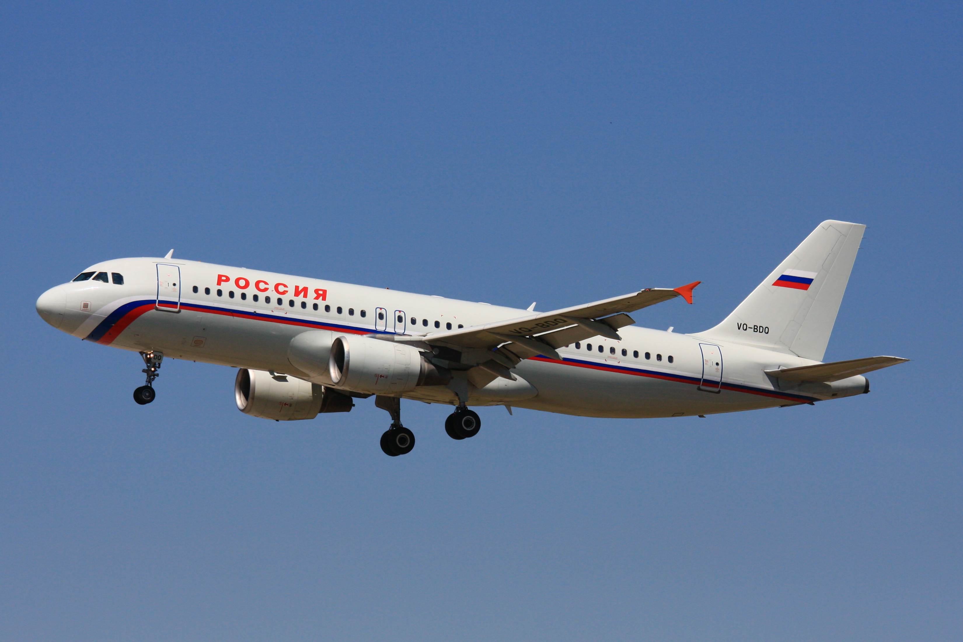 An Airbus A321 of Rossiya landing at Frankfurt Airport